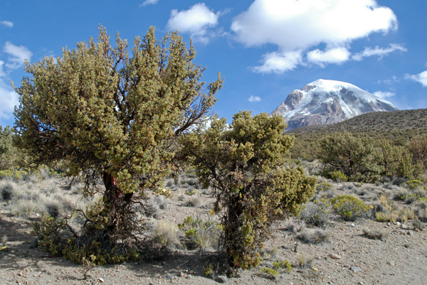 Queñua (Polylepis rugulosa) trees on the slopes of Sajama volcano in Bolivian Altiplano